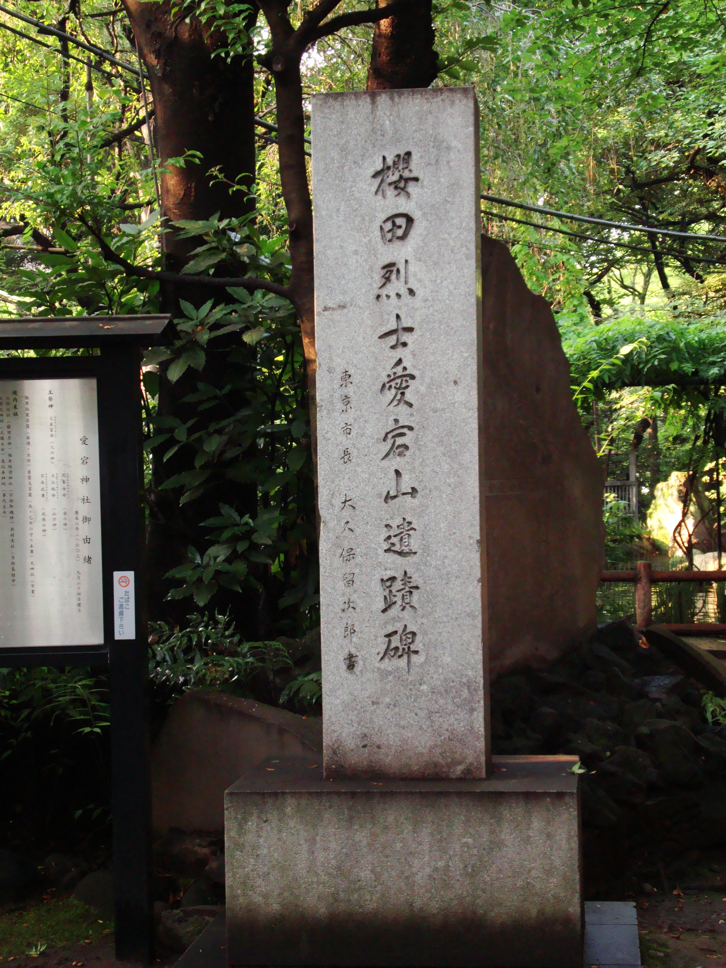 The monument of the Sakurada-ressi